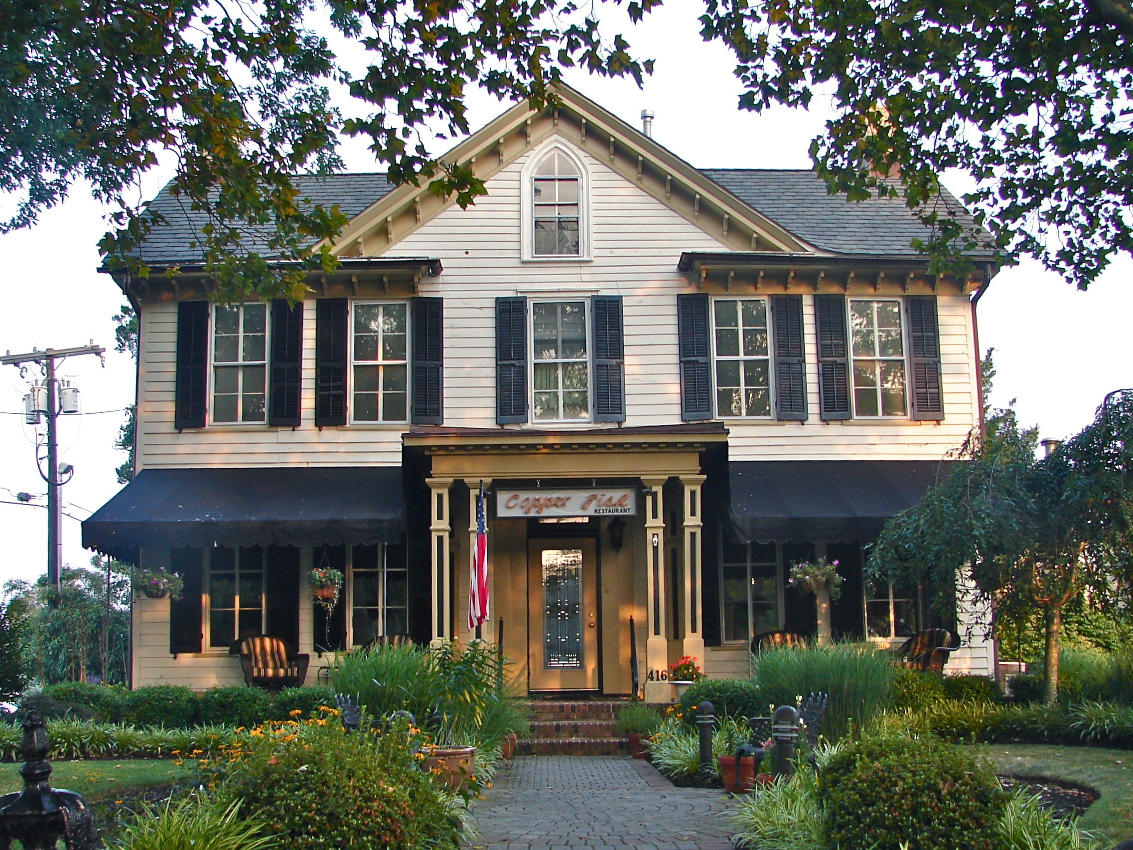 Whilldin-Miller House on the NRHP since February 12, 2003. At 416 S. Broadway, West Cape May, Cape May County, New Jersey